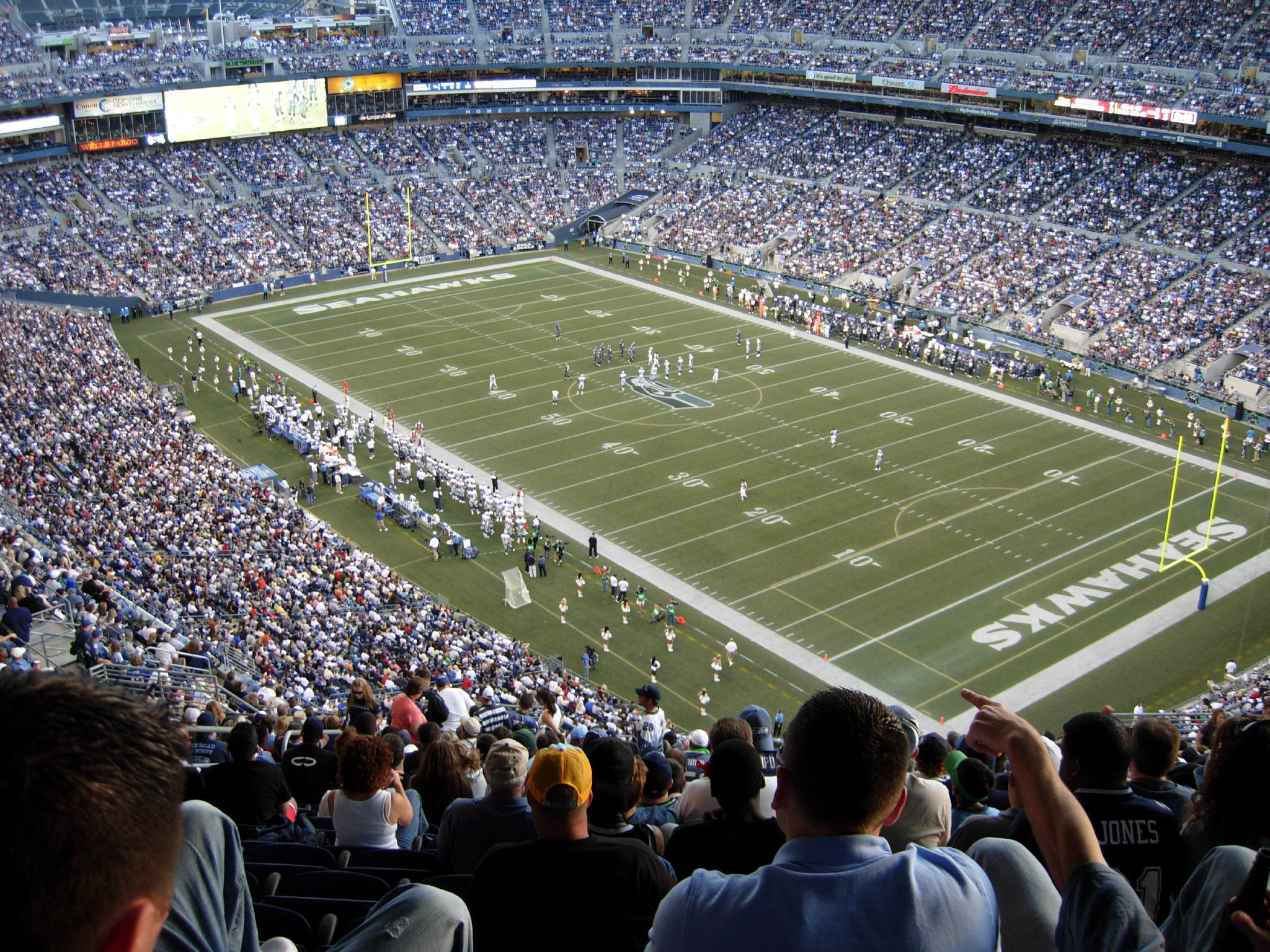 Seahawk's vs Cowboys